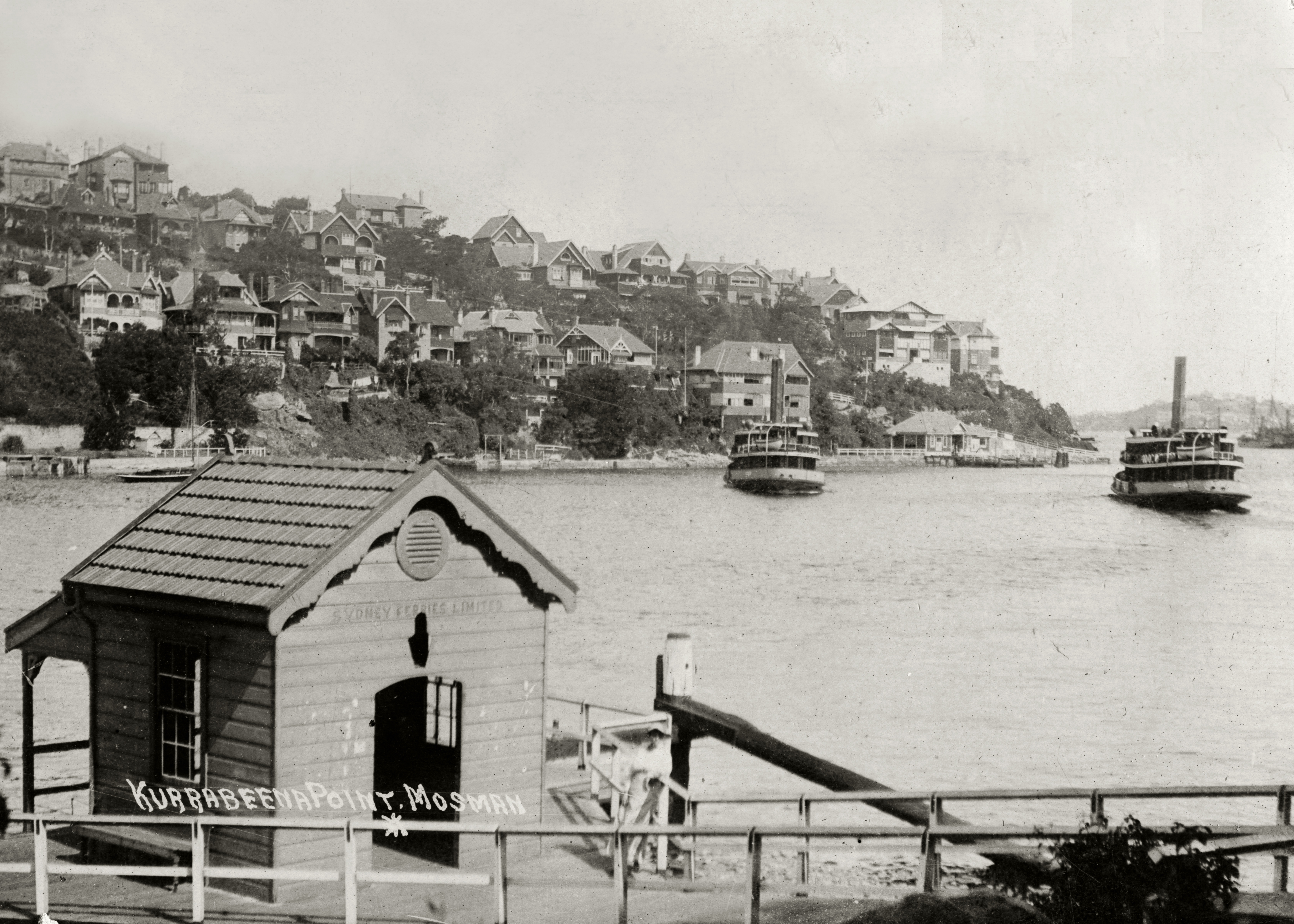 Ferries Kirawa and Kanangra in Mosman Bay, ca. 1920s or early 1930s. (source states 1938, however, these are the pre Harbour Bridge colours (ie, pre 1932) and other 1930s/40s buildings are not here yet. ie, Clifford